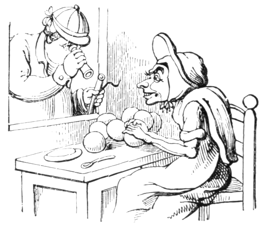 Illustration from English Caricaturists and Graphic Humourists of the Nineteenth Century, by William Rodgers Richardson (writing as Graham Everitt) Drawing by James Gillray Captioned "A Lesson in Apple Dumplings"